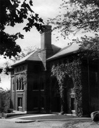 Entrance to Goddard Hall, 1939, the Fletcher School